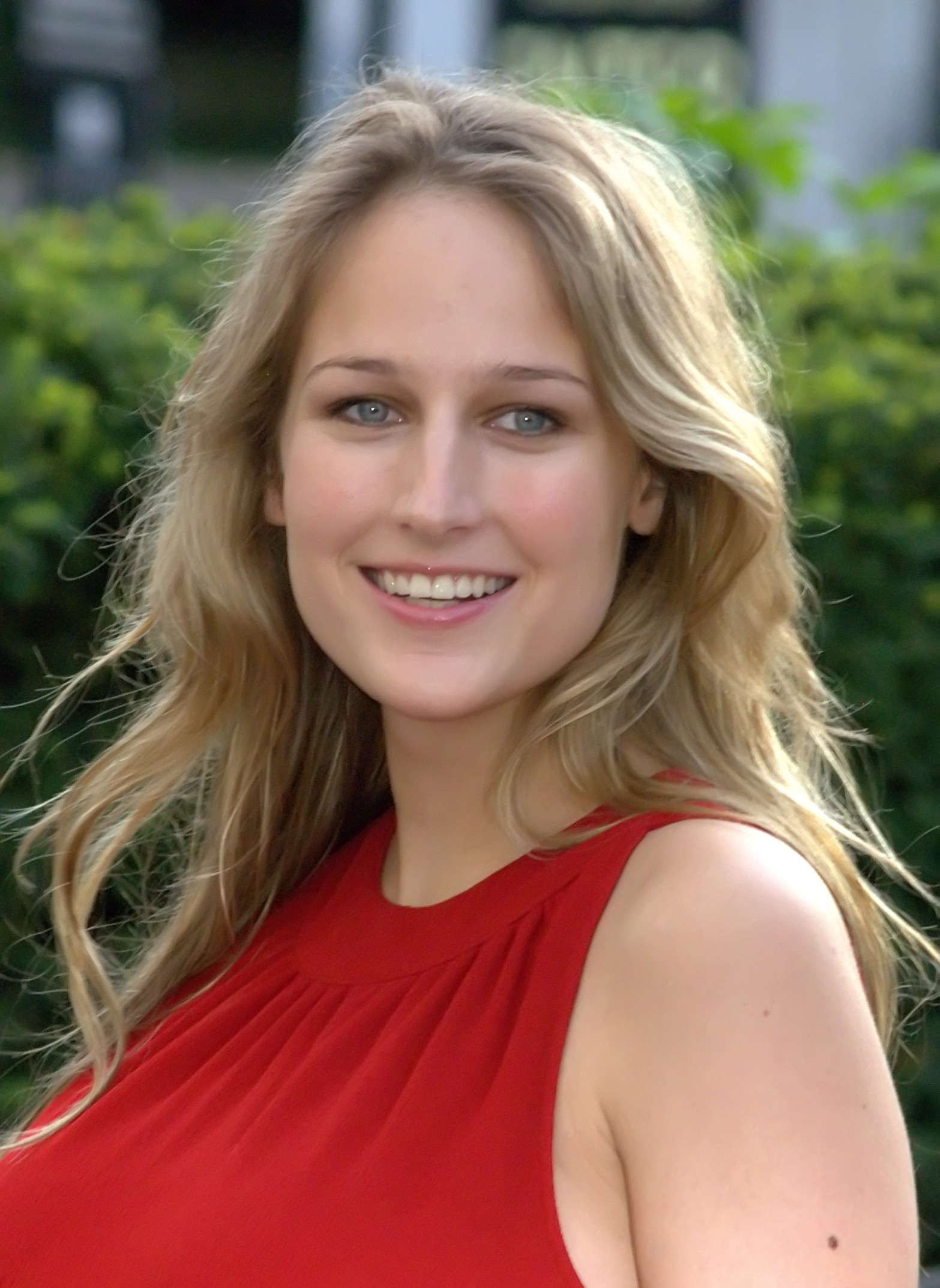 Leelee Sobieski at the 2009 premiere of the Metropolitan Opera in New York City. Photographer's blog post about event and photograph.